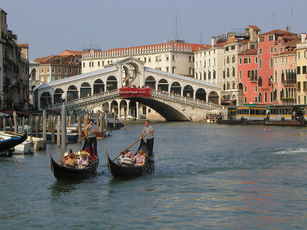 Gondolas in Venice (Venezia) in front of the Rialto Bridge